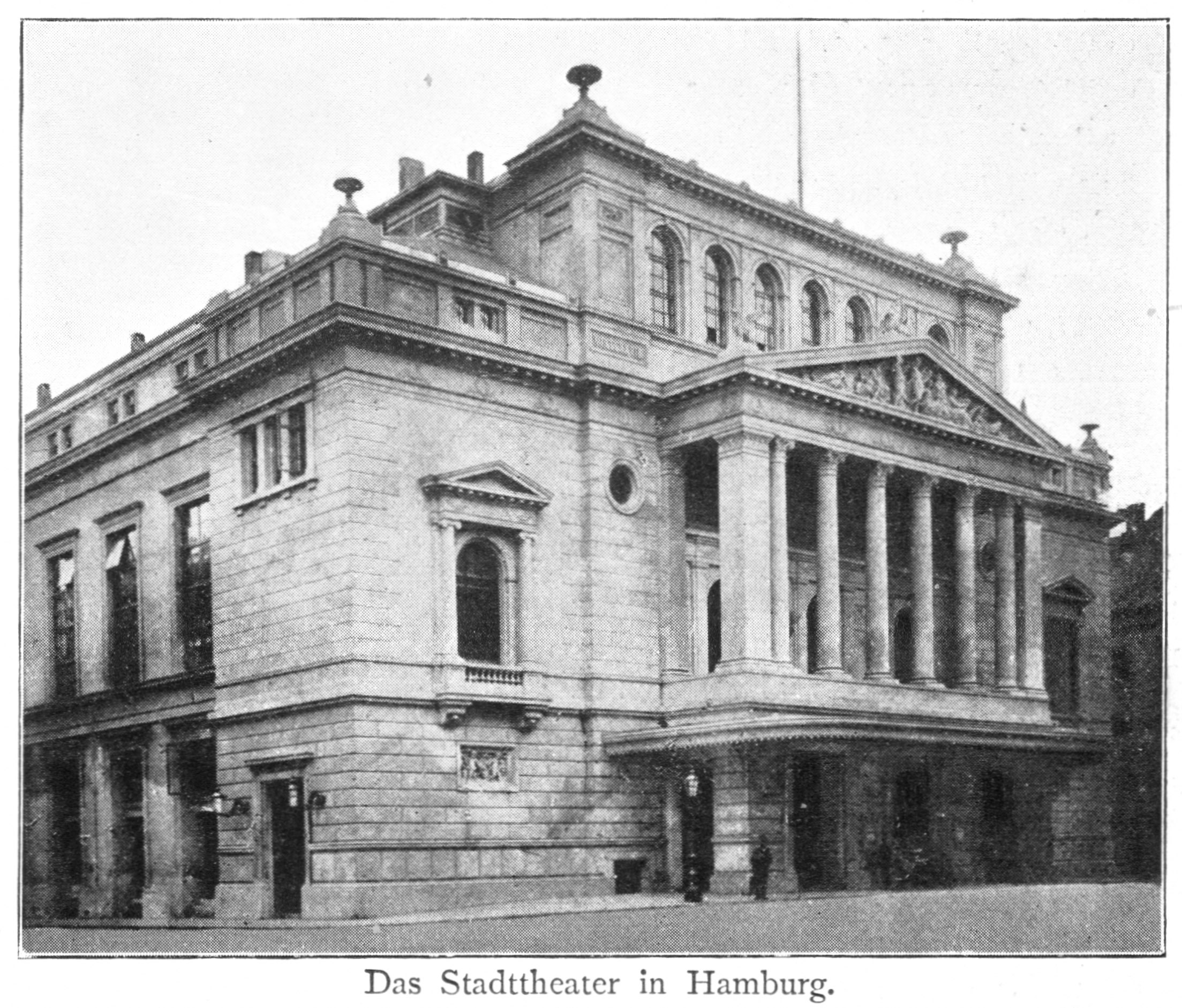 Hamburg, photo of the old building of the State Opera (architect: Carl Ludwig Wimmel, Martin Haller)